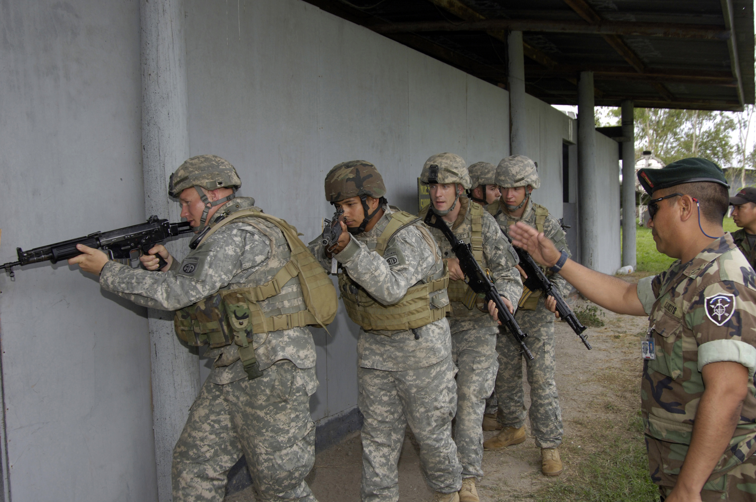 El Salvador Army 1st Sgt. Jose Hernandez, from the El Salvador Special Forces Anti-Terrorist Special Command, right, gives the go-ahead to a team of soldiers of the U.S. Army's 1st Battalion, 325th Airborne Infantry Regiment, 82nd Airborne Division, Ft. Bragg, N.C., during room-clearing training during a Small Unit Familiarization Program platoon exchange in San Salvador, El Salvador on May 2, 2006. (U.S. Army photo by Kaye Richey) (Released)